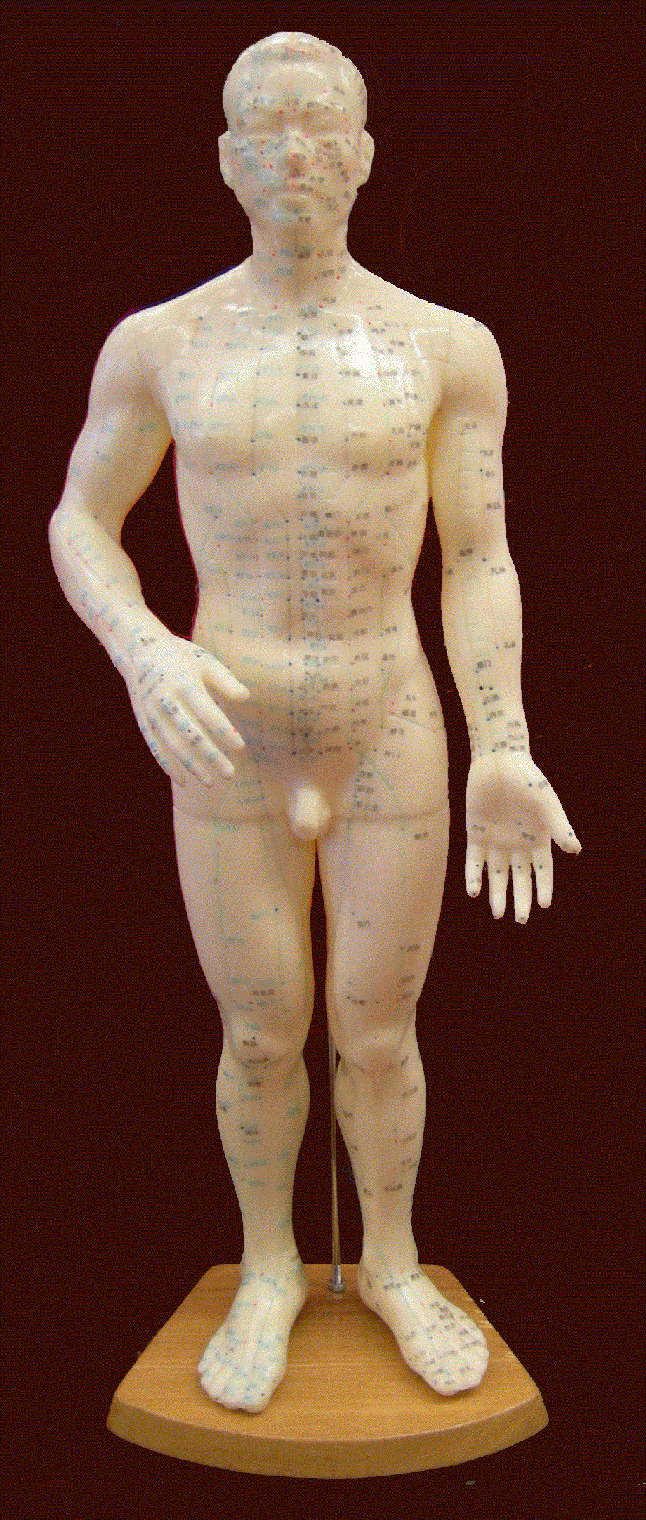 Acupuncture doll. Archie McPhee store, Ballard, Seattle, Washington.